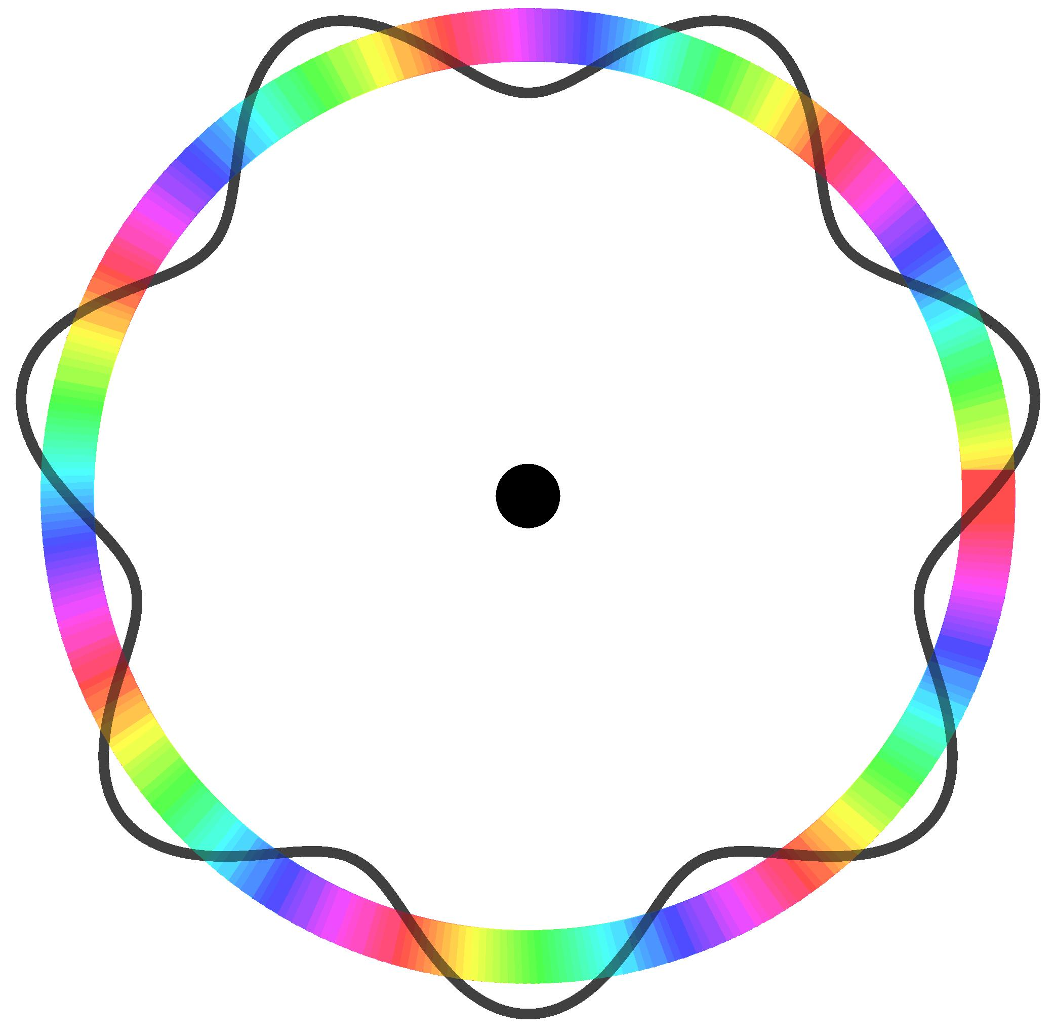 Two representations of a hydrogenic de-Broglie wave; the ring represents the electron's phase as a color, the wavy line shows the phase using a polar plot of a sinus curve.